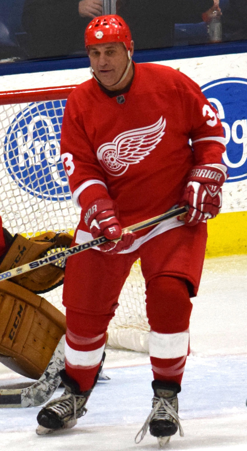 Detroit Red Wings Alumni goalie Gregg Malicke blocks the net against a shot from Michigan Warriors player Chris Hervey while John Blum attempts to clear the puck during a charity match Nov. 19, 2016, in Plymouth, Mich. The Alumni won 7-5 after two 25-minute periods. Each member of the Warriors team is a military veteran with a service-connected disability or has received a Purple Heart.